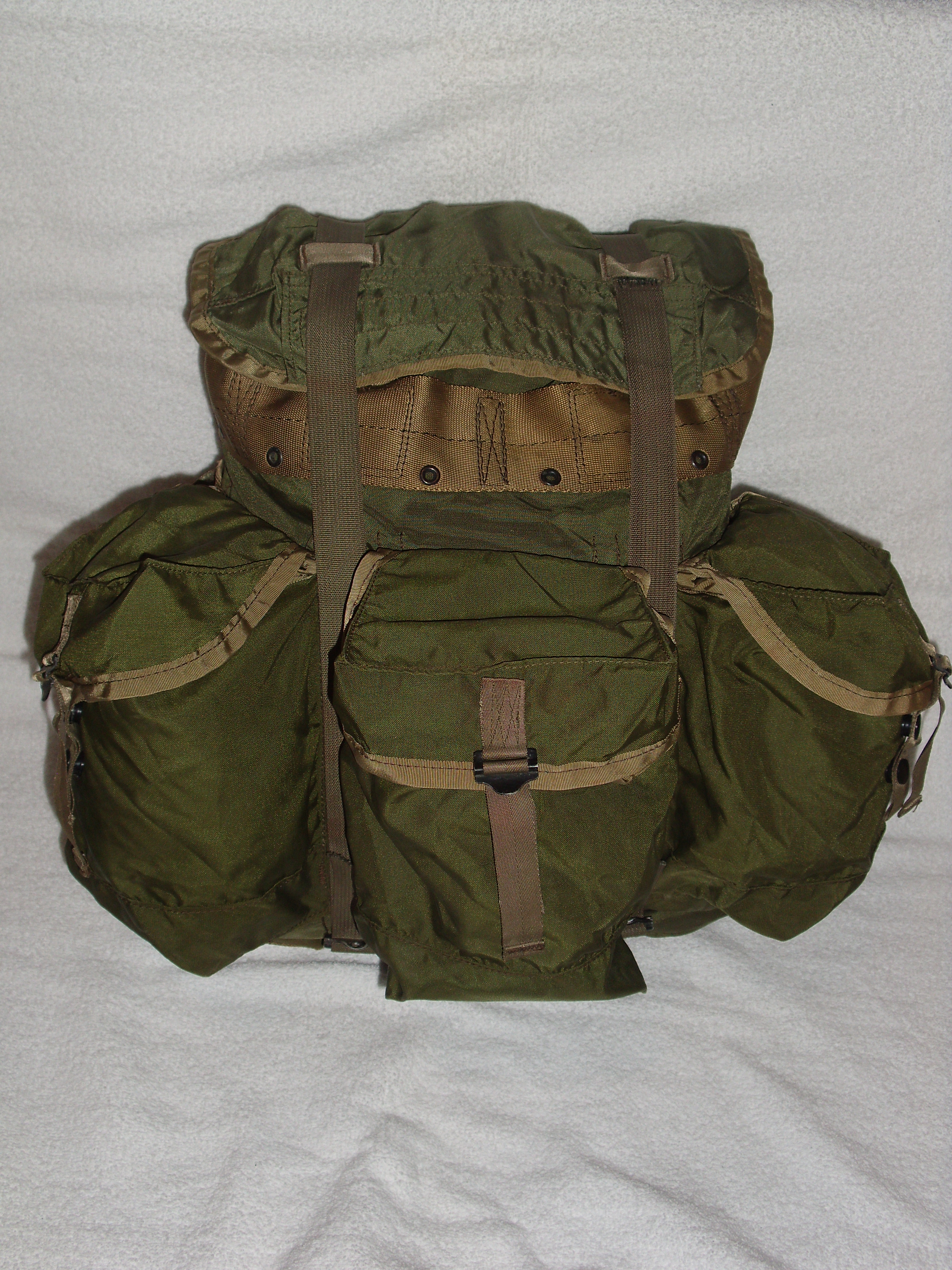 Tropical Rucksack Front View